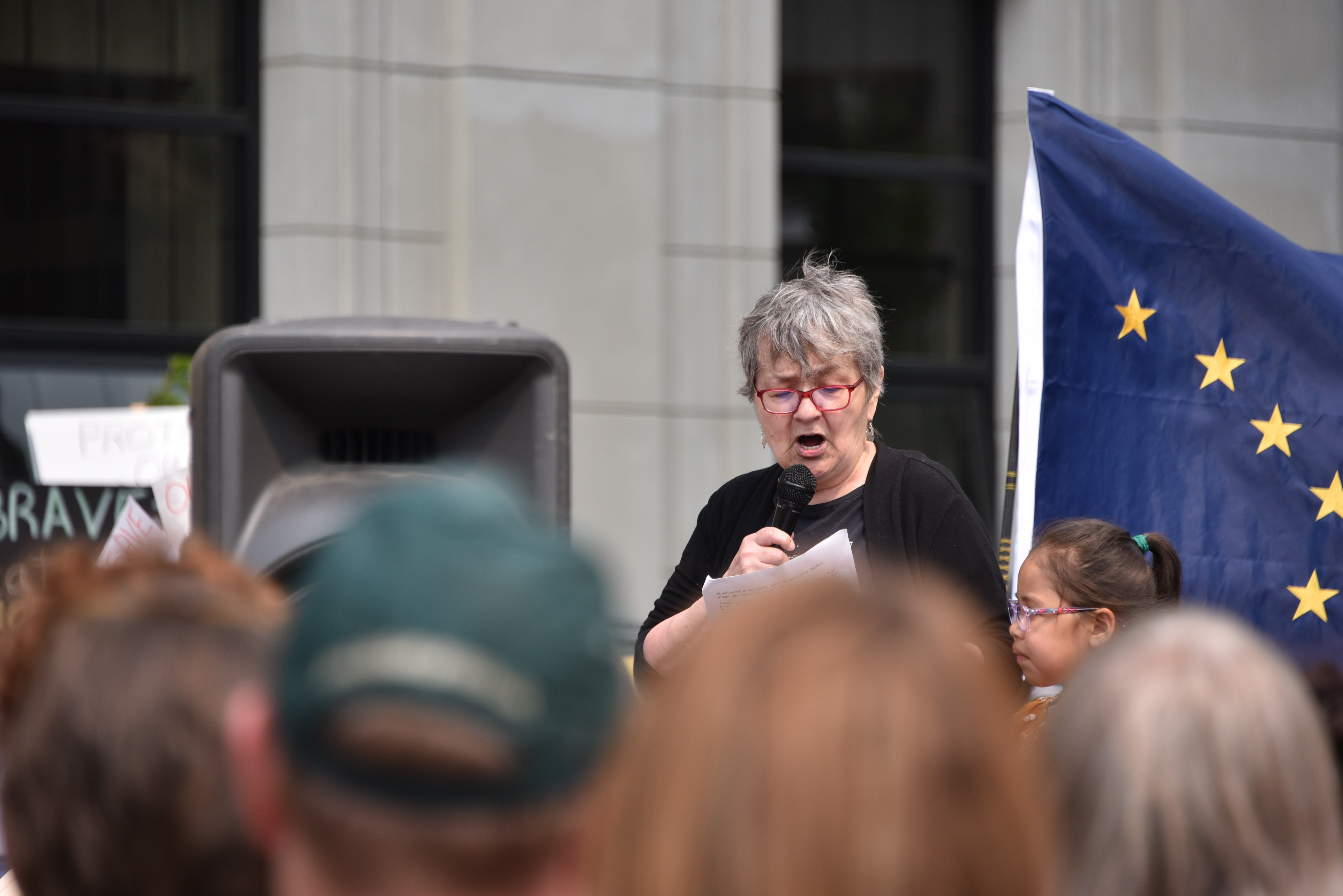 Juneau Rally for Overrides: Save Our State! Speaker Ernestine Hayes, former writer laureate of Alaska, UAS associate professor. At the Alaska Capitol Building, Juneau, Alaska.